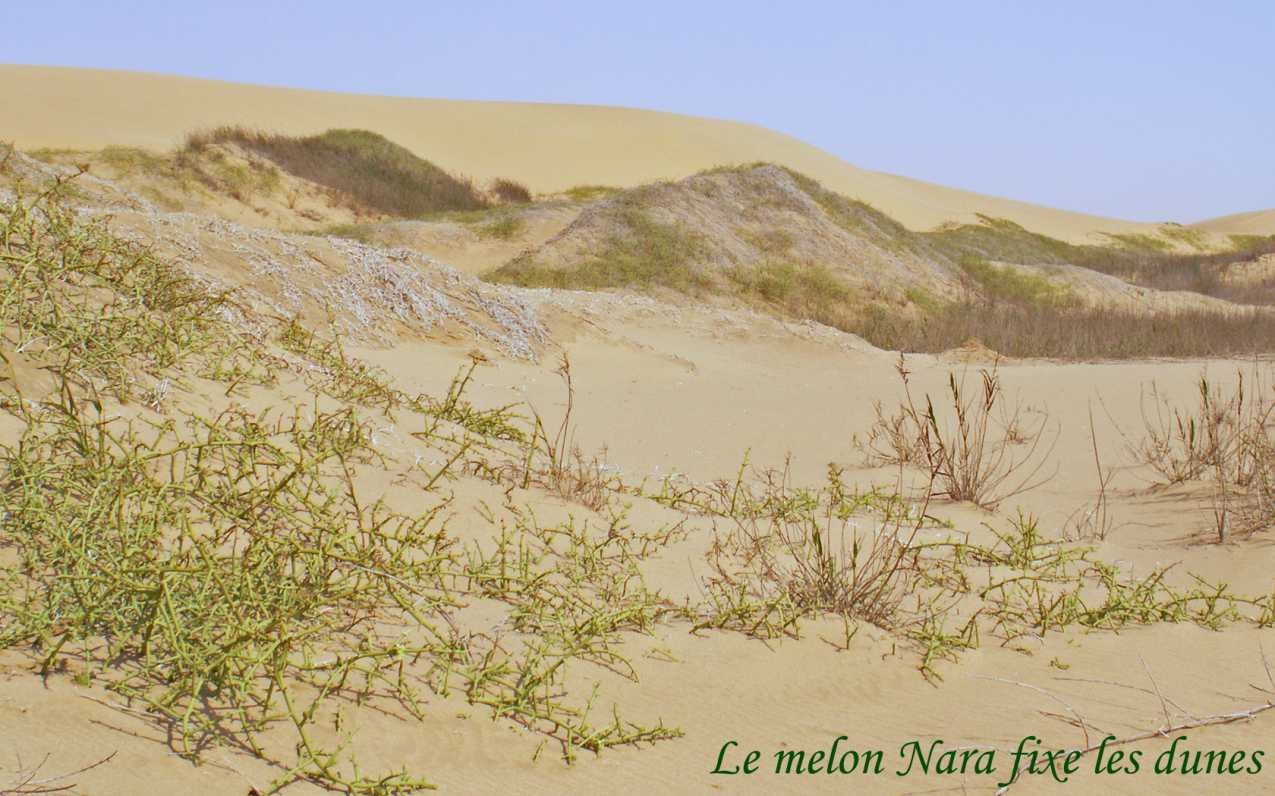 Nara (Acanthosicyos horridus) dans les dunes du désert de Namibie